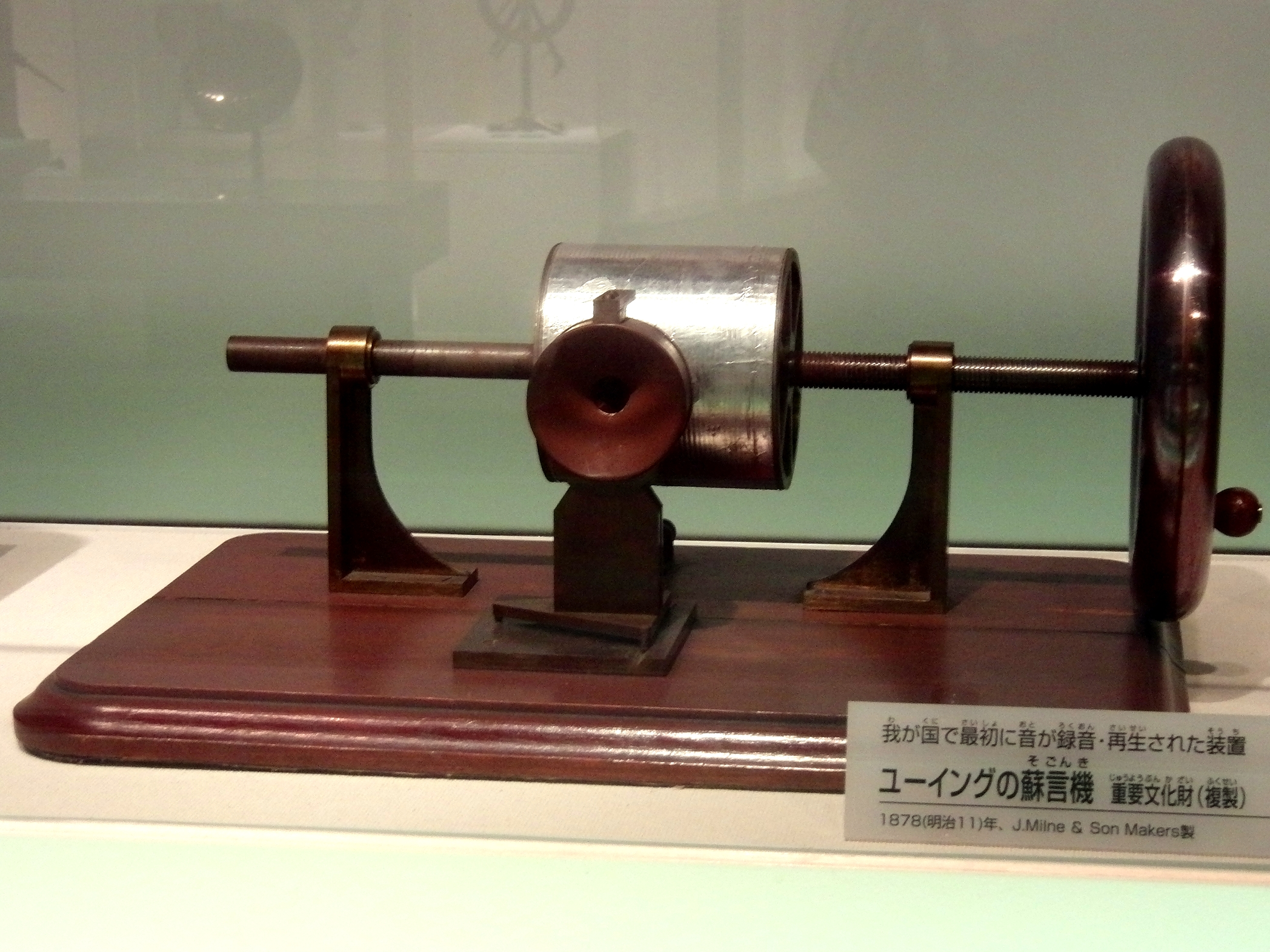 Ewing's Voice Reproduction Device. One of the Important Cultural Properties of Japan. Exhibit in the National Museum of Nature and Science, Tokyo, Japan.